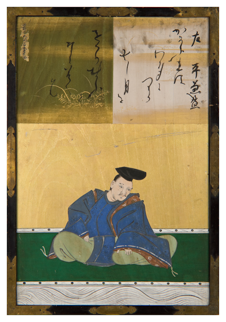 Sanjūrokkasen-gaku (Thirty-six Poetry Immortals framed picture) #24: Taira no Kanemori